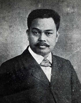 Antonio Novicio Luna